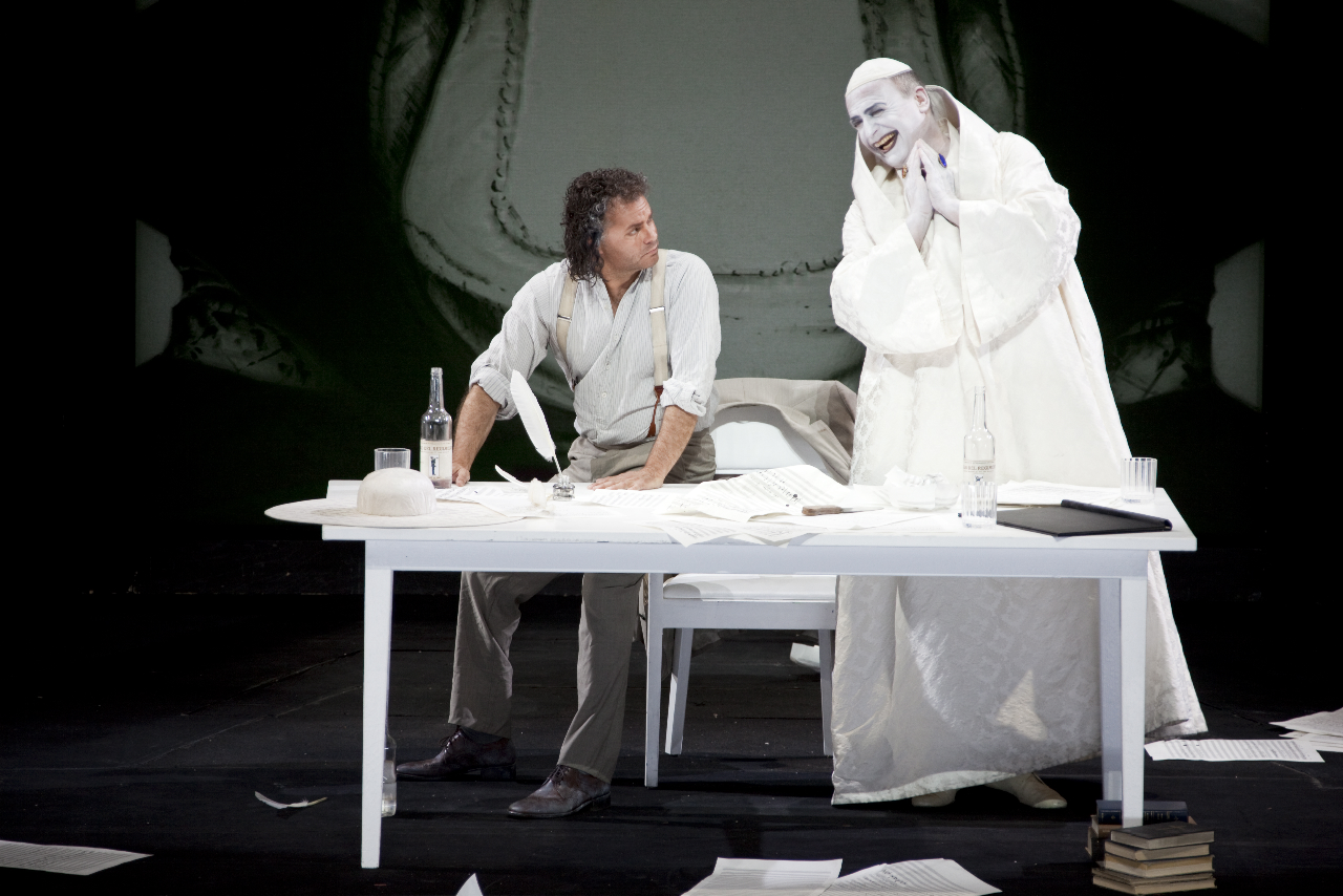 Production of Palestrina at Hamburgische Staatsoper 2011, stage photo of Act I, Scene 3: Falk Struckmann as Cardinal Carlo Borromeo (standing to the right in the white robe) is imploring Roberto Saccà as Palestrina (half-seated to the left, in suspenders) to compose a new polyphonic Mass.